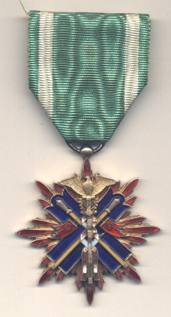 Japanese Order of the Golden Kite, 4th Class Before 1937 type.